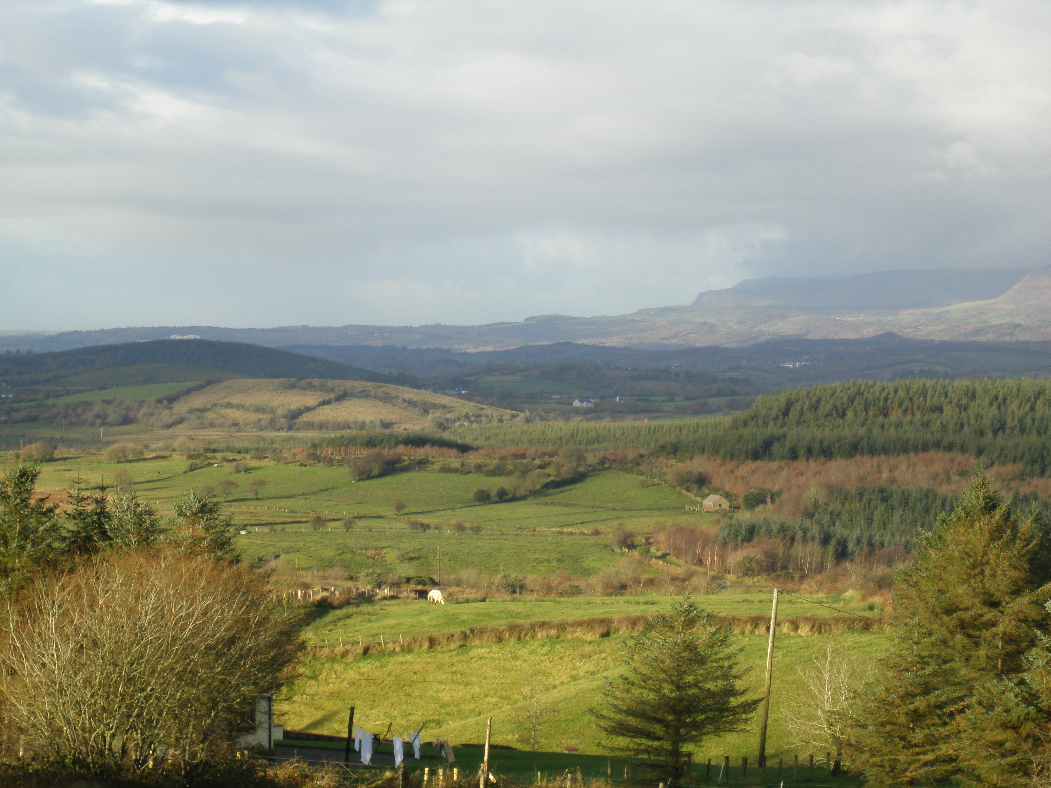 Photo of countryside in Leitrim